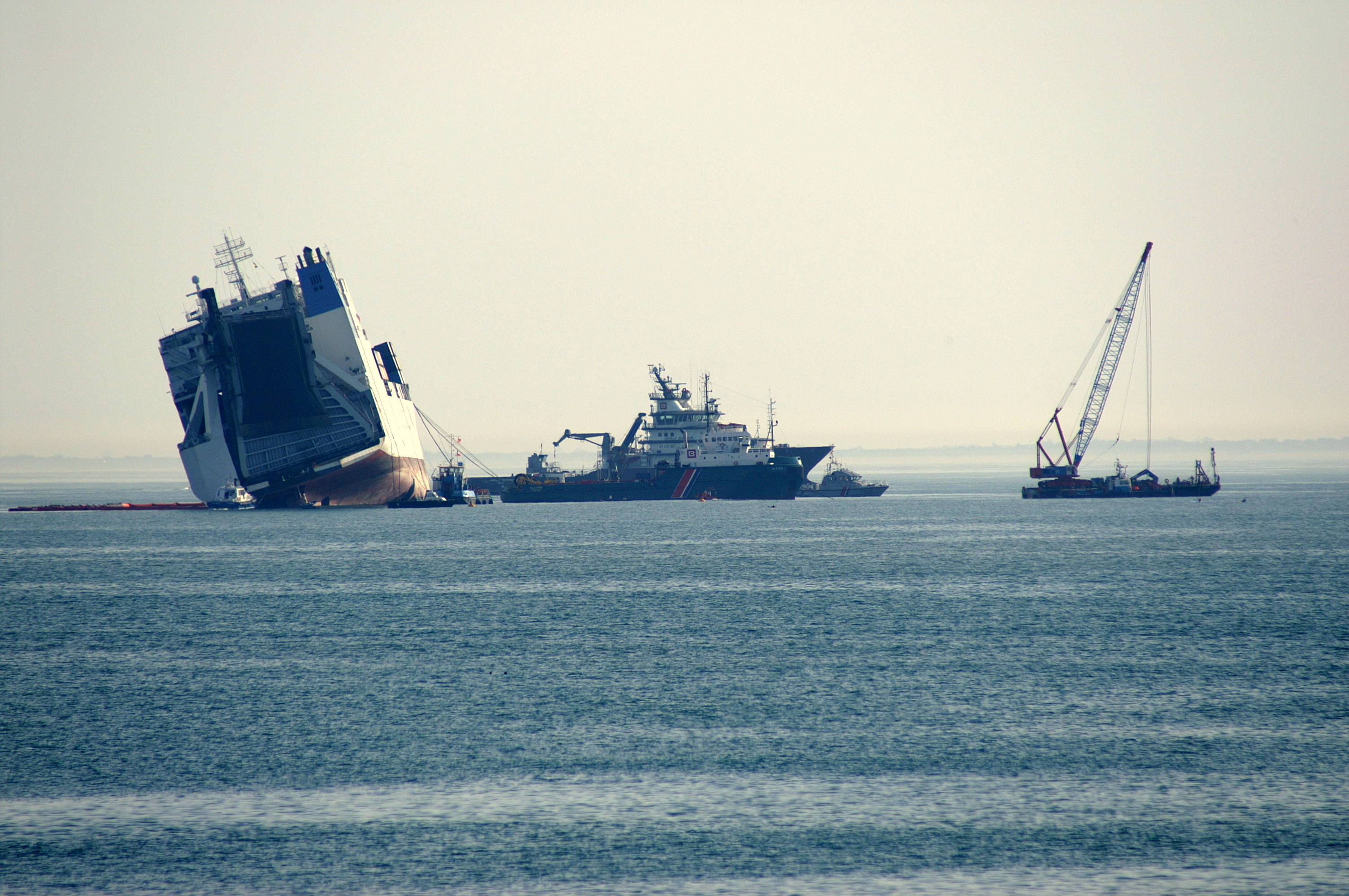 Stranded Rokia Delmas seen from La Couarde-sur-Mer, France. IMO Number: 8315190 Country: Panama MMSI Number: 352810000 Callsign: 3EFP4 Length: 185.0m Beam: 32.0m